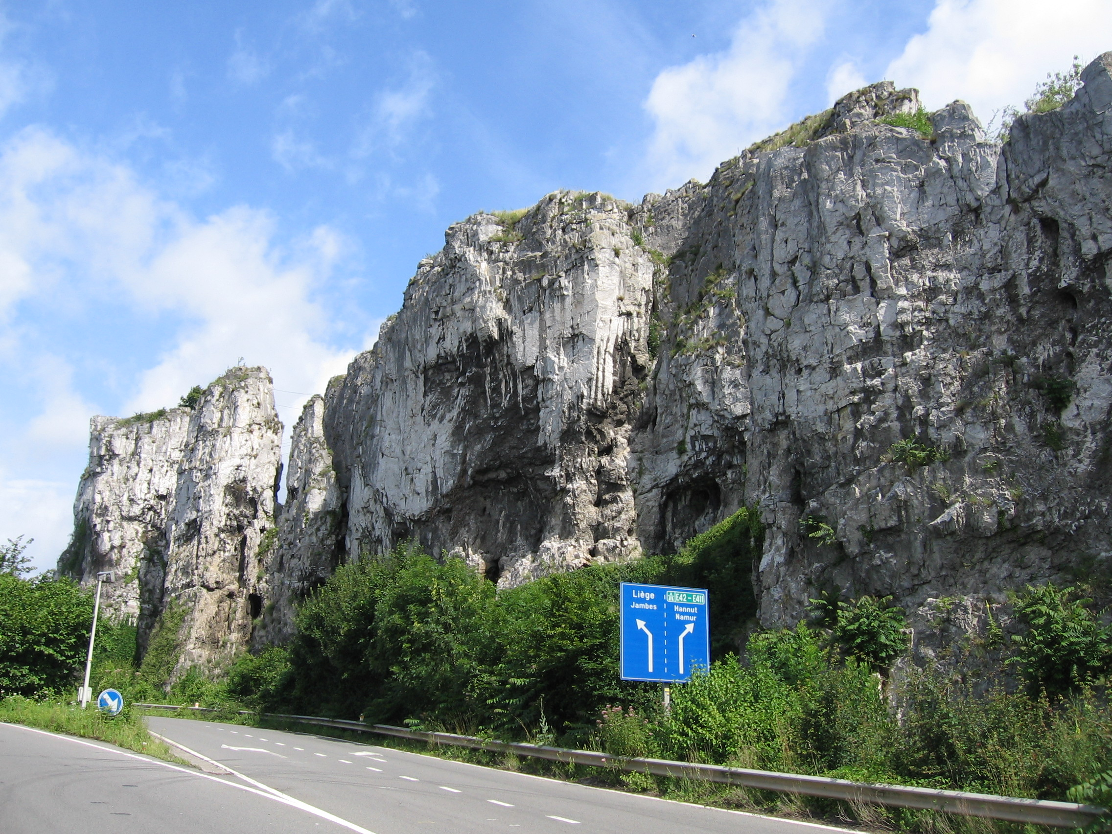 'Grands-Malades' rocks on the road from Namur to Beez, alongside the Meuse River.